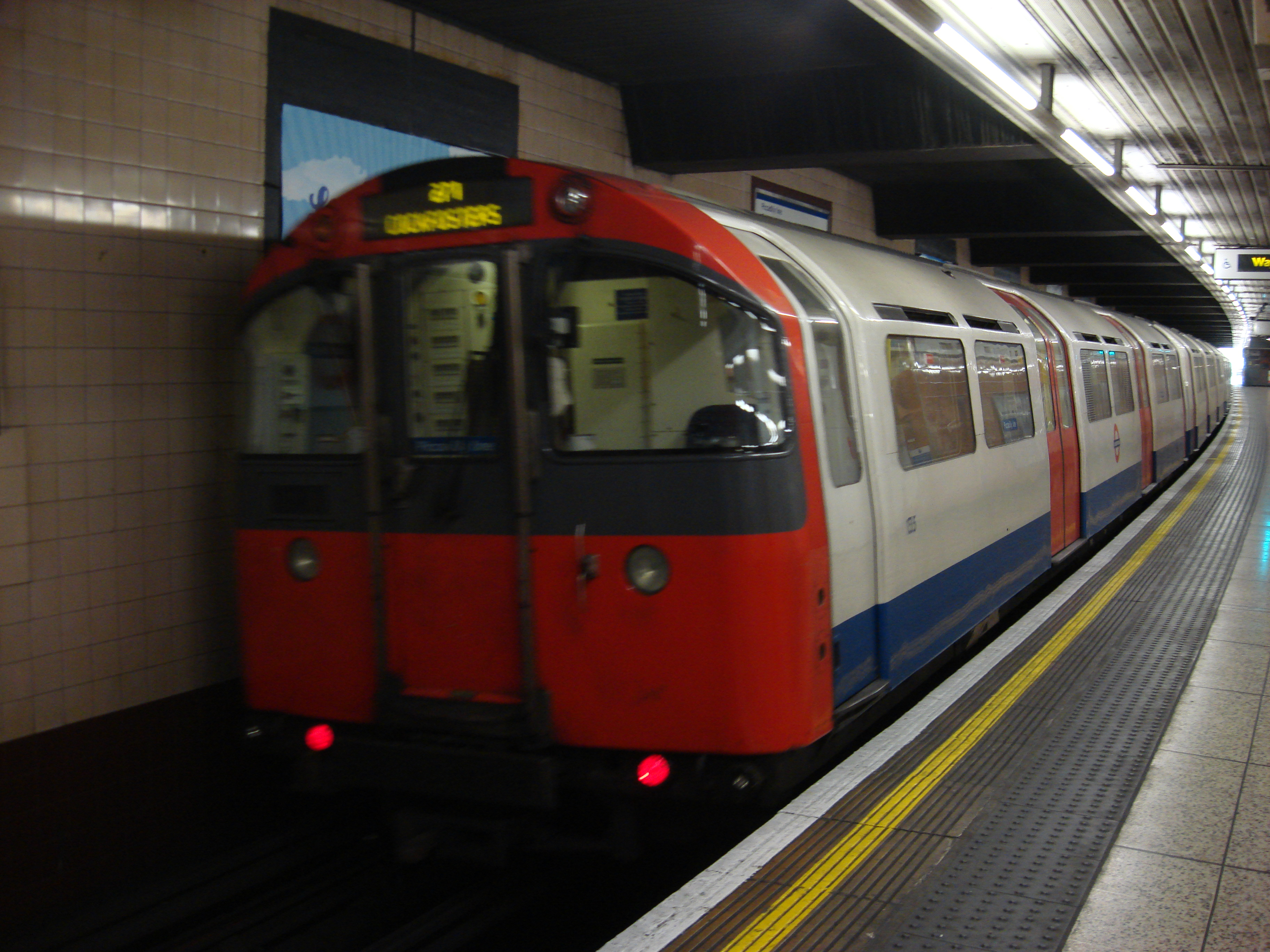 London Underground 1973 Stock at Hounslow West tube station